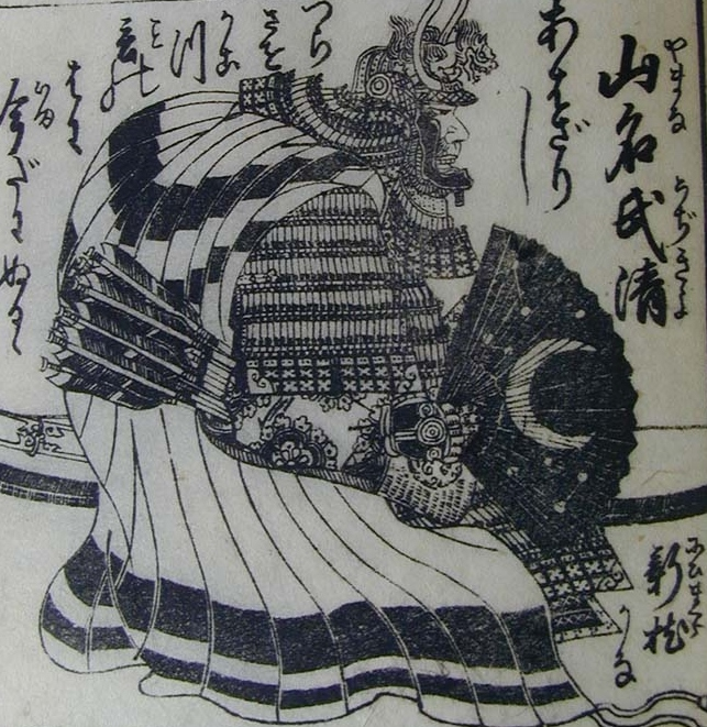 yamana_ujikiyo